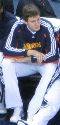 Ronny Turiaf (third from left) and other Golden State Warriors players sit on the bench at Oracle Arena.